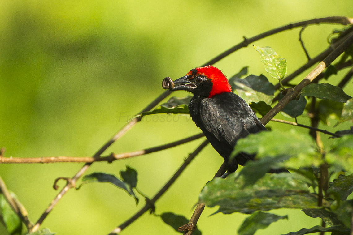 A Red-headed Malimbe; other names: Red-collared Malimbe, Red-headed Quelea; (Malimbus rubricollis) in the Kakum National Park (Ghana)